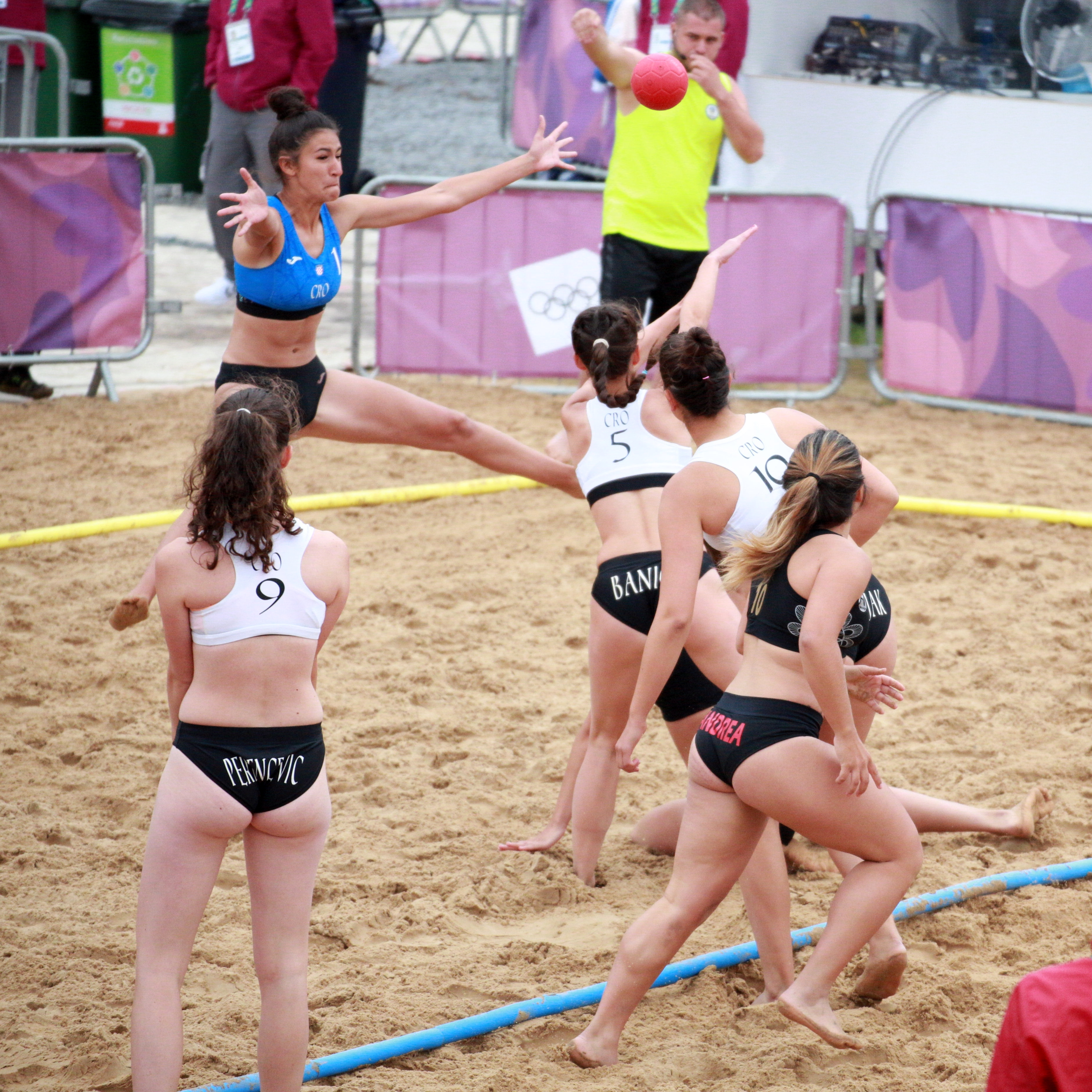 Beach handball at the 2018 Summer Youth Olympics at 12 October 2018 – Girls Main Round – Croatia-Paraguay 2:0